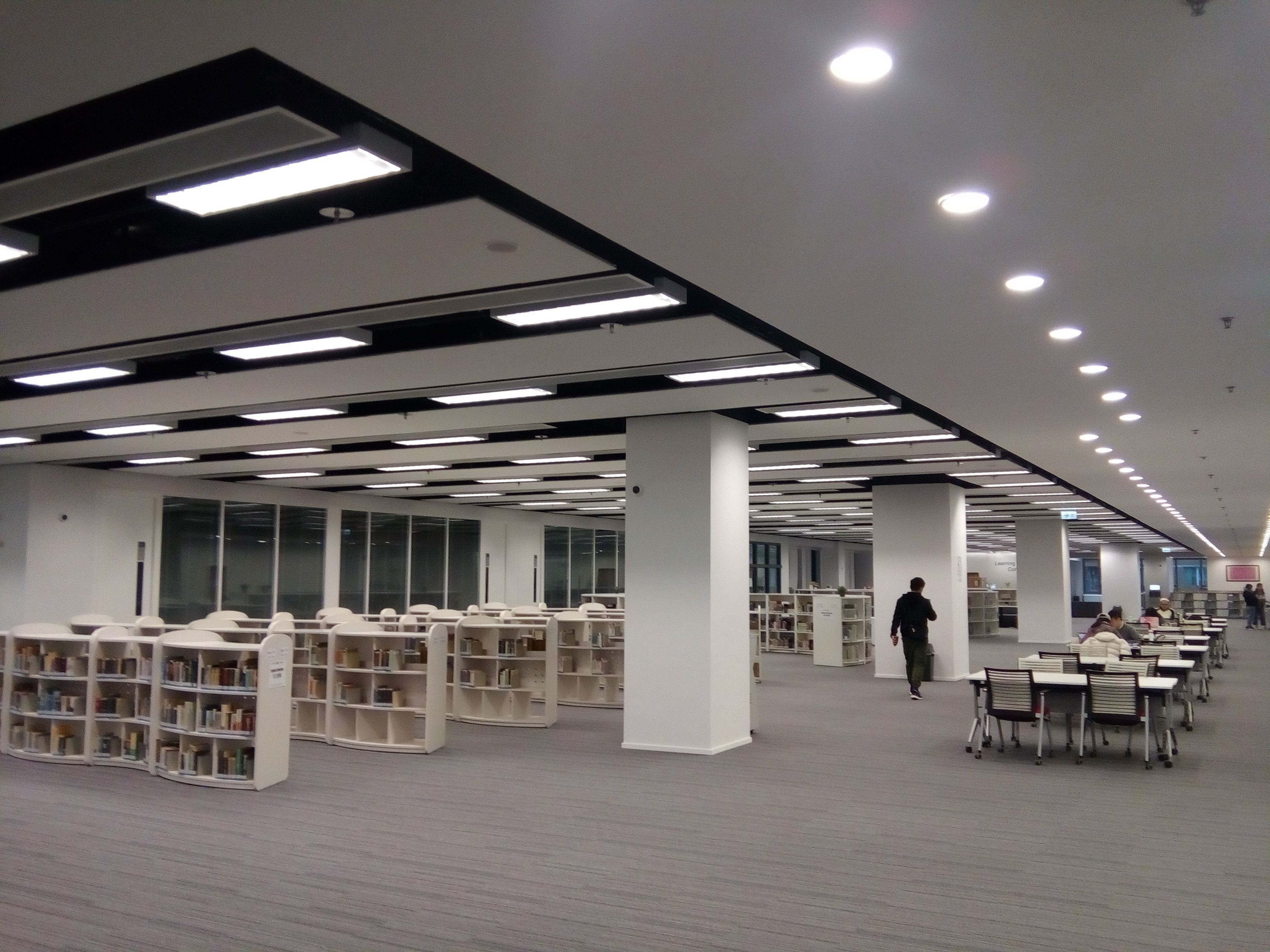 HK TKL 調景嶺 Tiu Keng Leng 明愛白英奇 CBCC CIHE Library interior Jan-2018